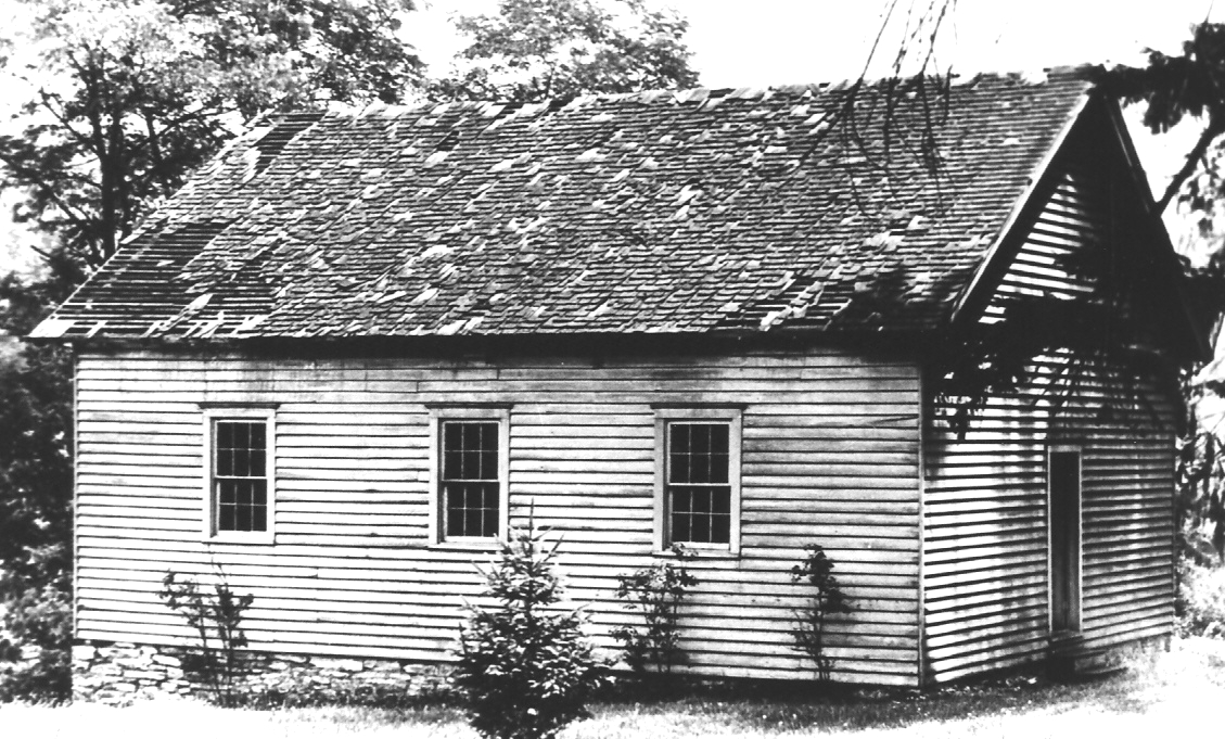 Brush Run Church after its removal to Bethany, W.Va.